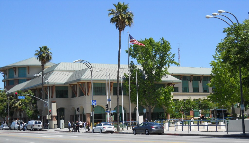 Government Center — Van Nuys Blvd. and Erwin Street, Van Nuys, Los Angeles.